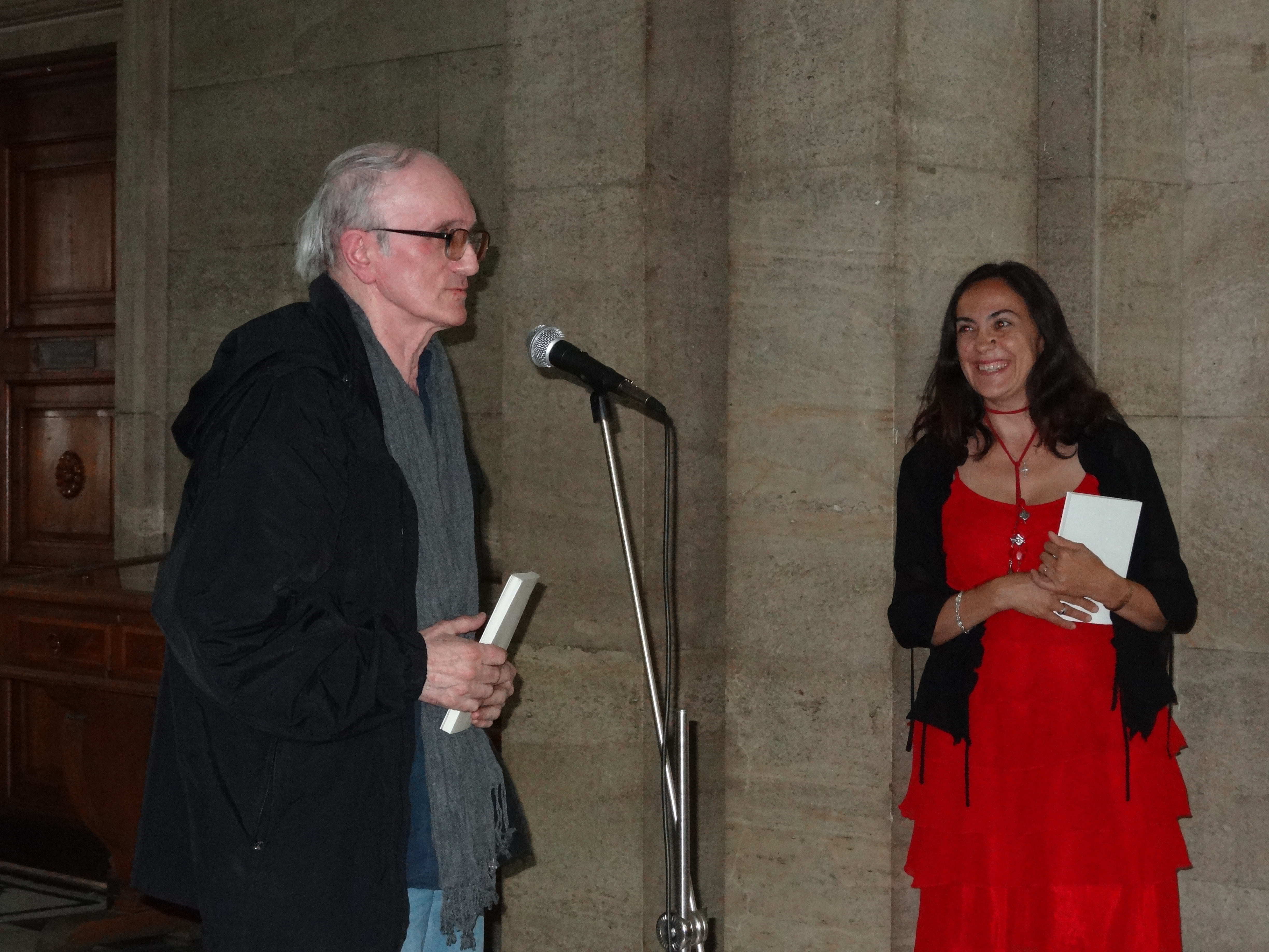 Tsvetanka Elenkova and Ivan Tsanev, Sofia, 2013